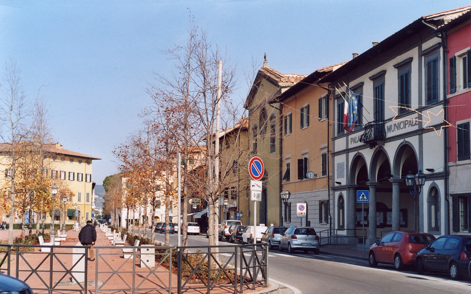 Bientina, Pisa, Italy Photo: November 2006 by myself